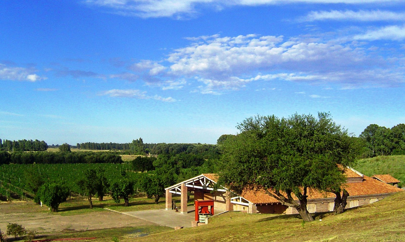 View of "Al Este Bodega y Viñedos" in Médanos